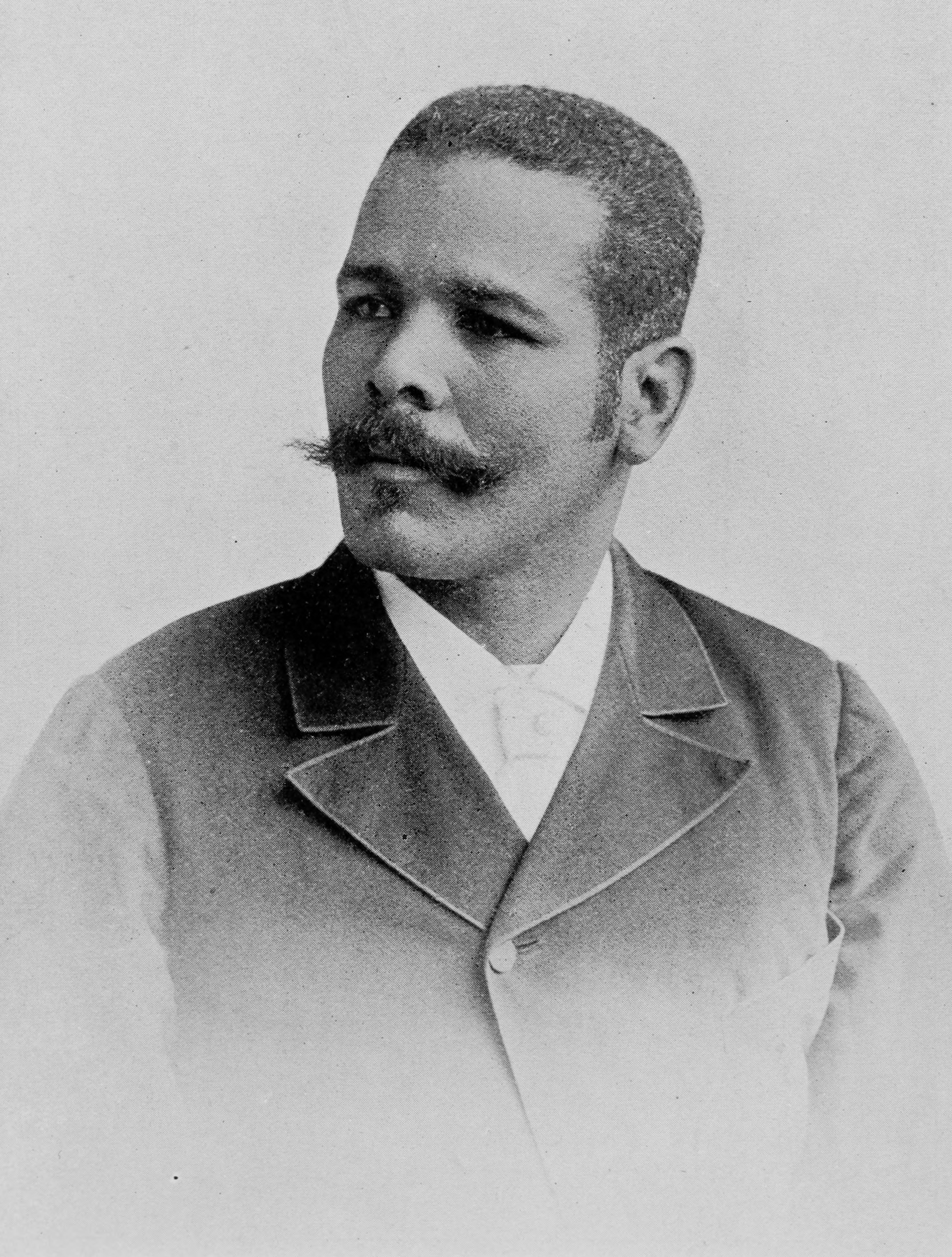 Antonio Maceo Grajales